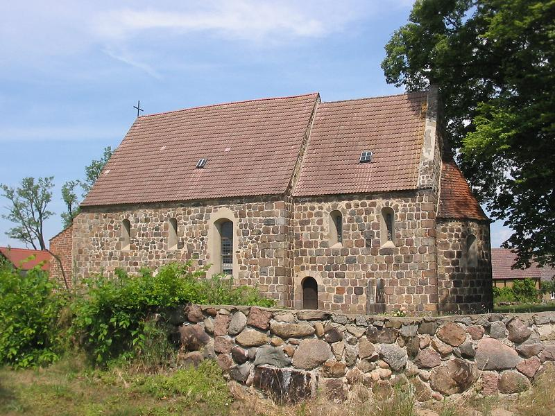 Church Preußnitz, built in 13th century. The village Preußnitz is a part of the village Kuhlowitz, an incorporated part of the town Belzig in Brandenburg, Germany.